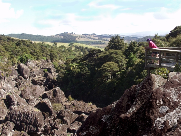 Wairere Boulders, Horeke, Hokianga, the view from the platform down into the valley